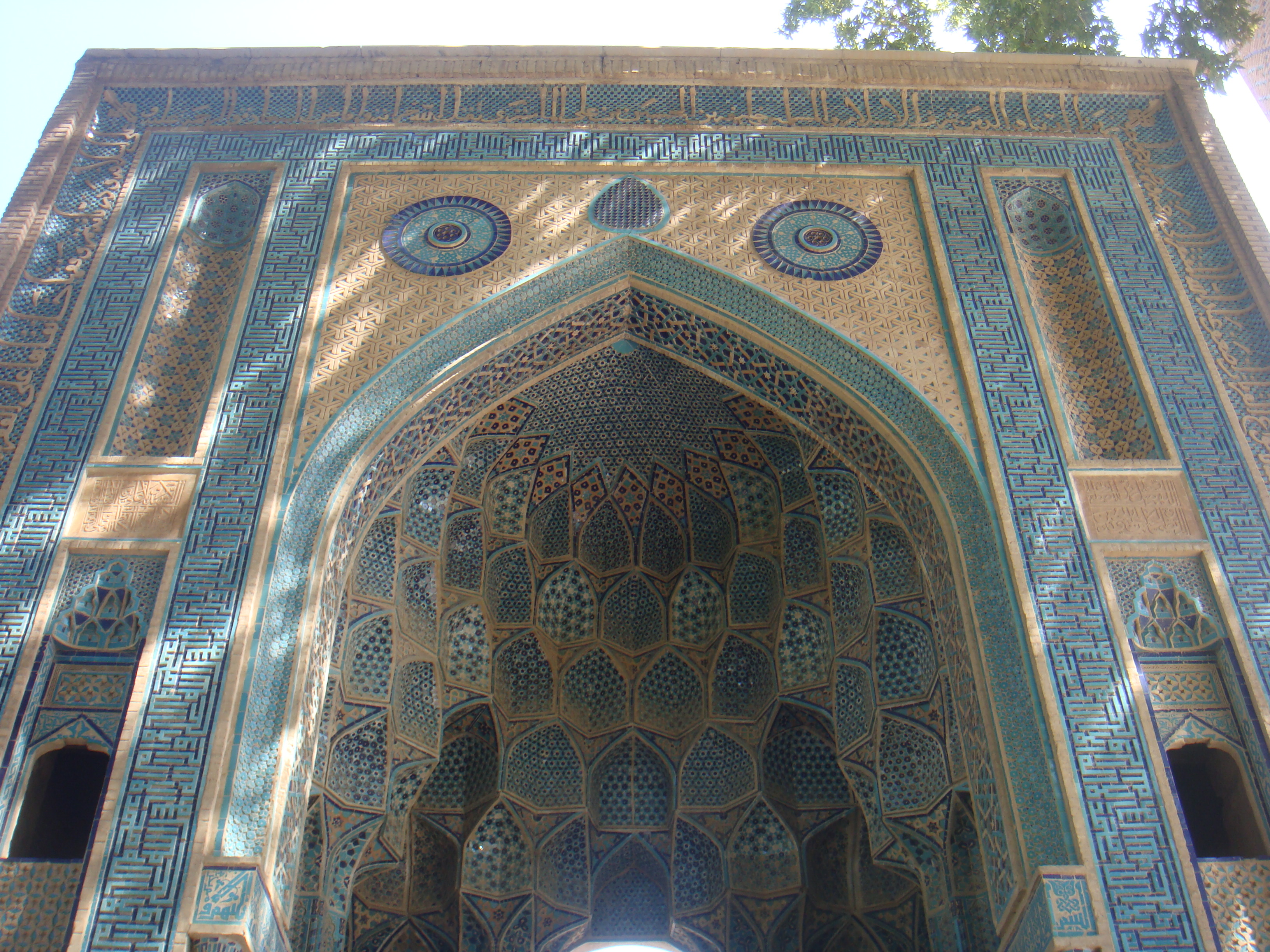 Upper Ayvan at Abdul Samad Isfahani Shrine